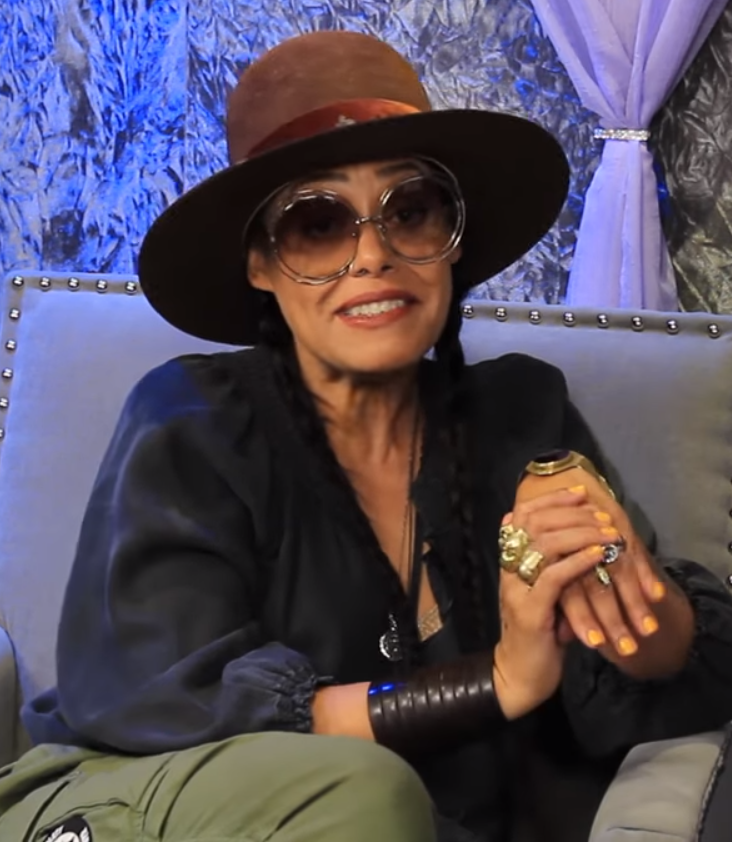 Cree Summer in an interview in 2018